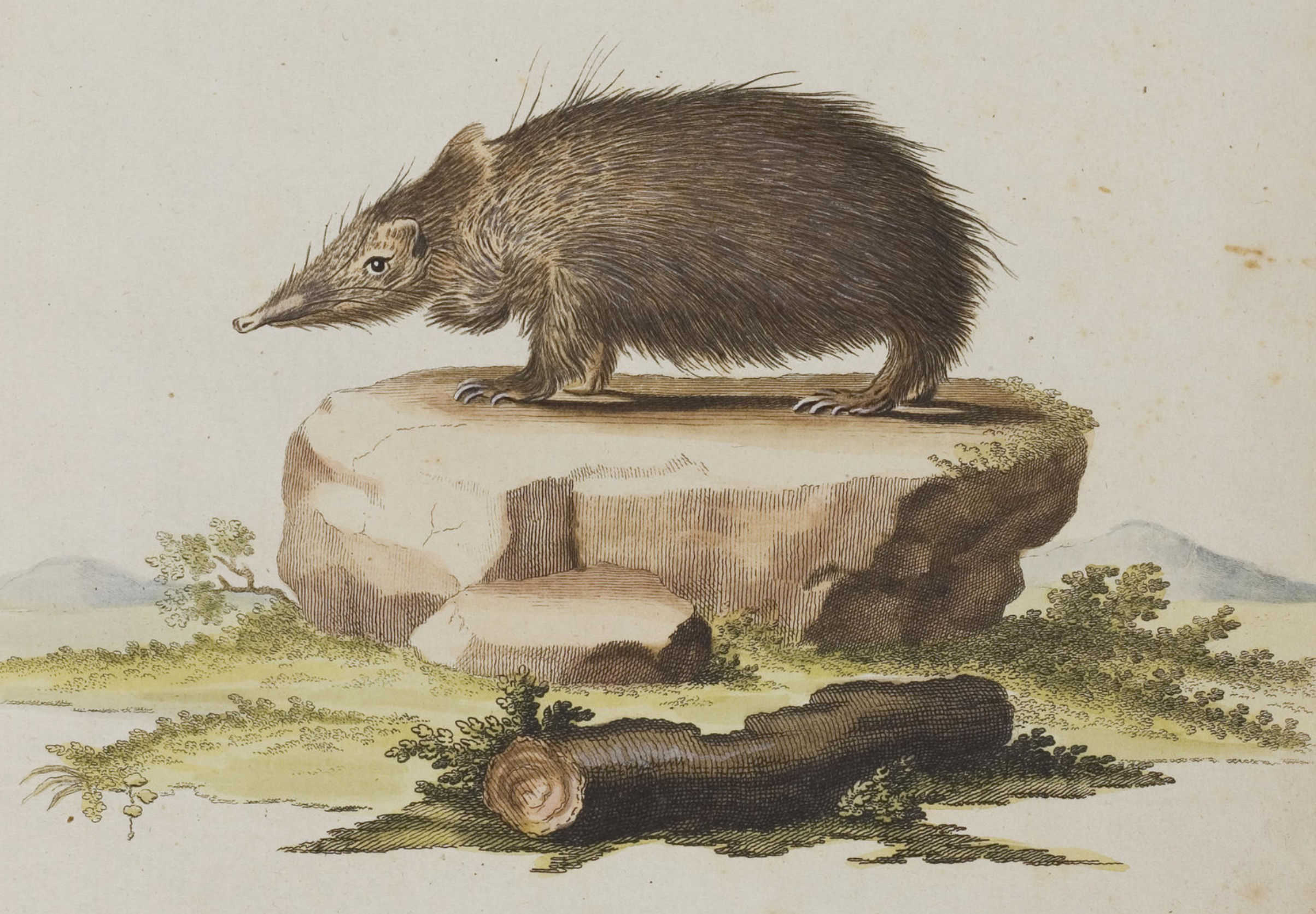 Drawing of the Common tenrec (Tenec ecaudatus from the species description of Johann Christian Daniel Schreber 1777